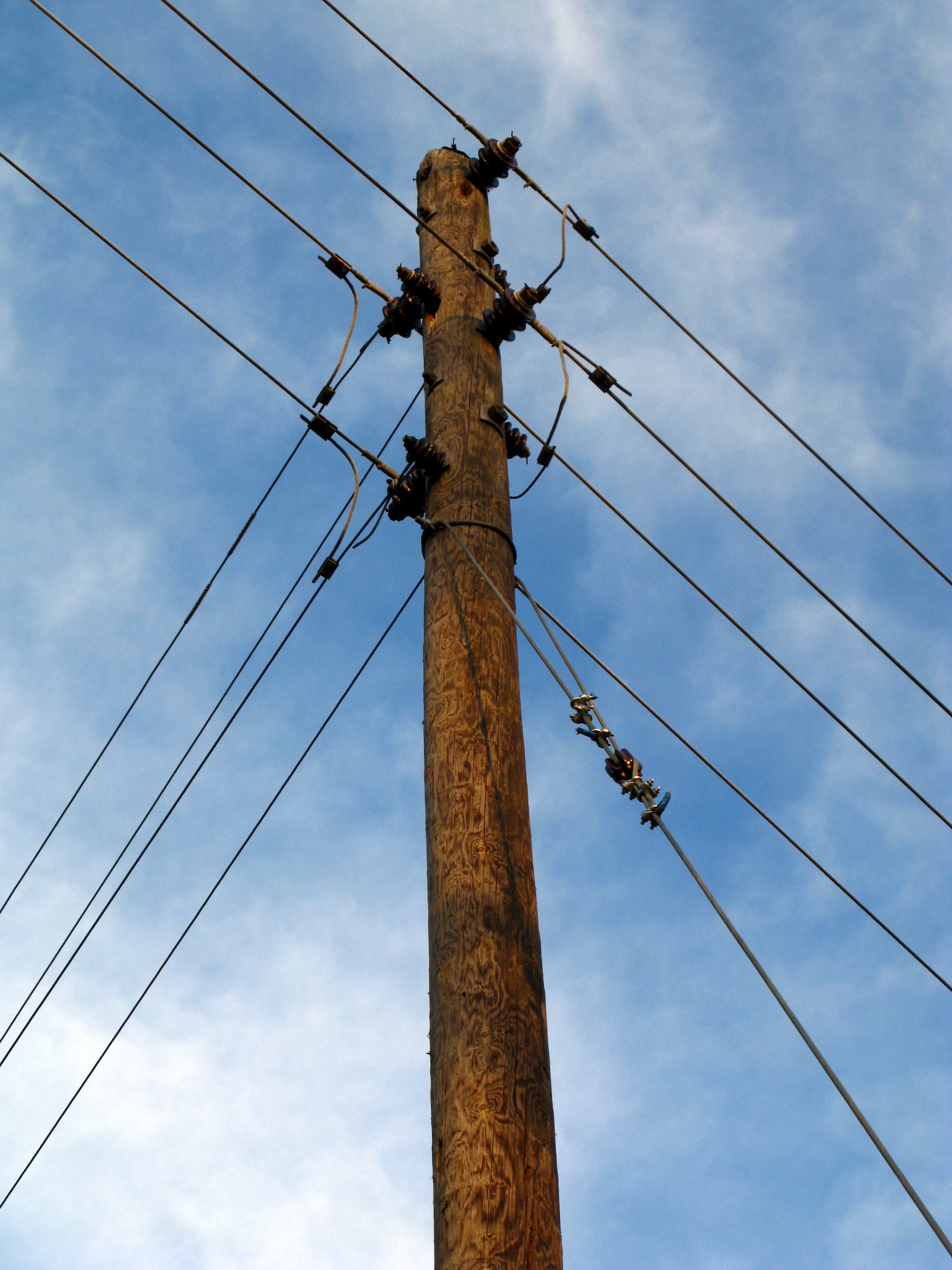 Wooden power pole, low voltage (220 V / 380 V) in Carinthia / Austria / EU.